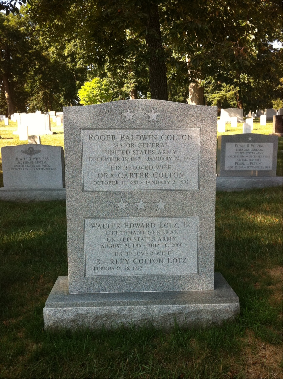 Grave of Roger B. Colton at Arlington National Cemetery